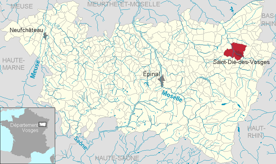 Saint-Dié-des-Vosges in the department of Vosges, Lorraine, France